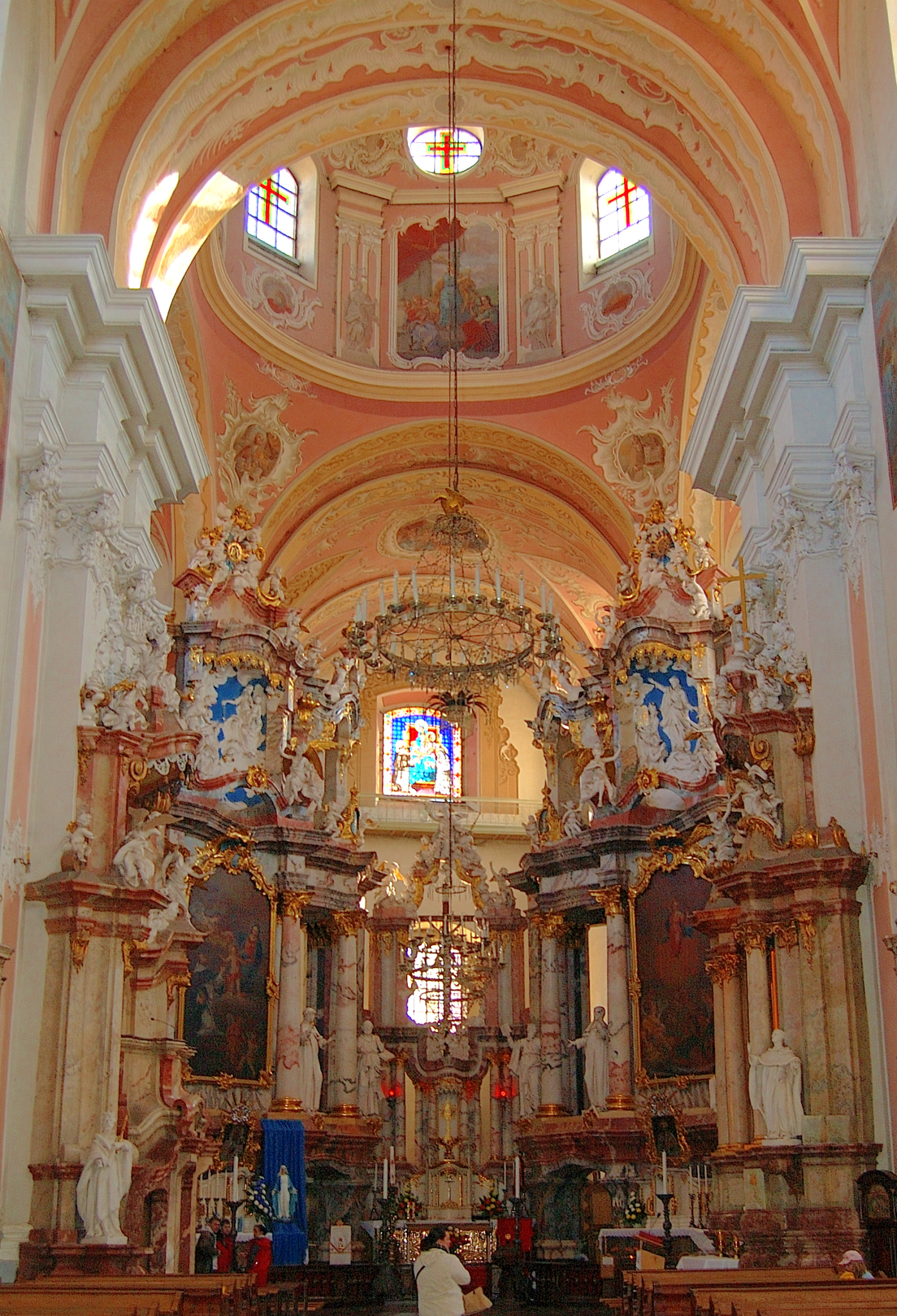 Altar of the Church of the Holy Spirit, Lithuania